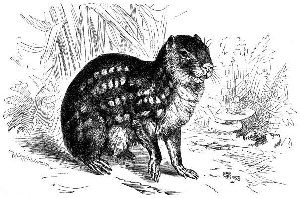 Paka (Coelogenys paca)